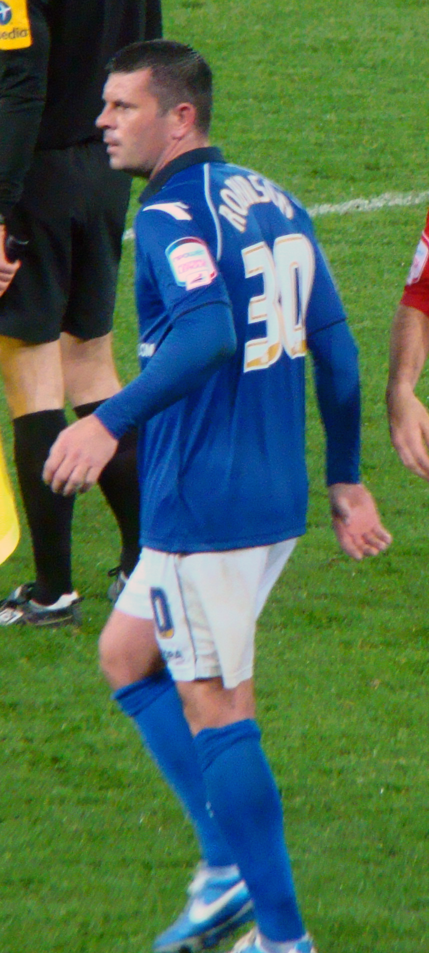 Paul Robinson. Image cropped from original at flickr.